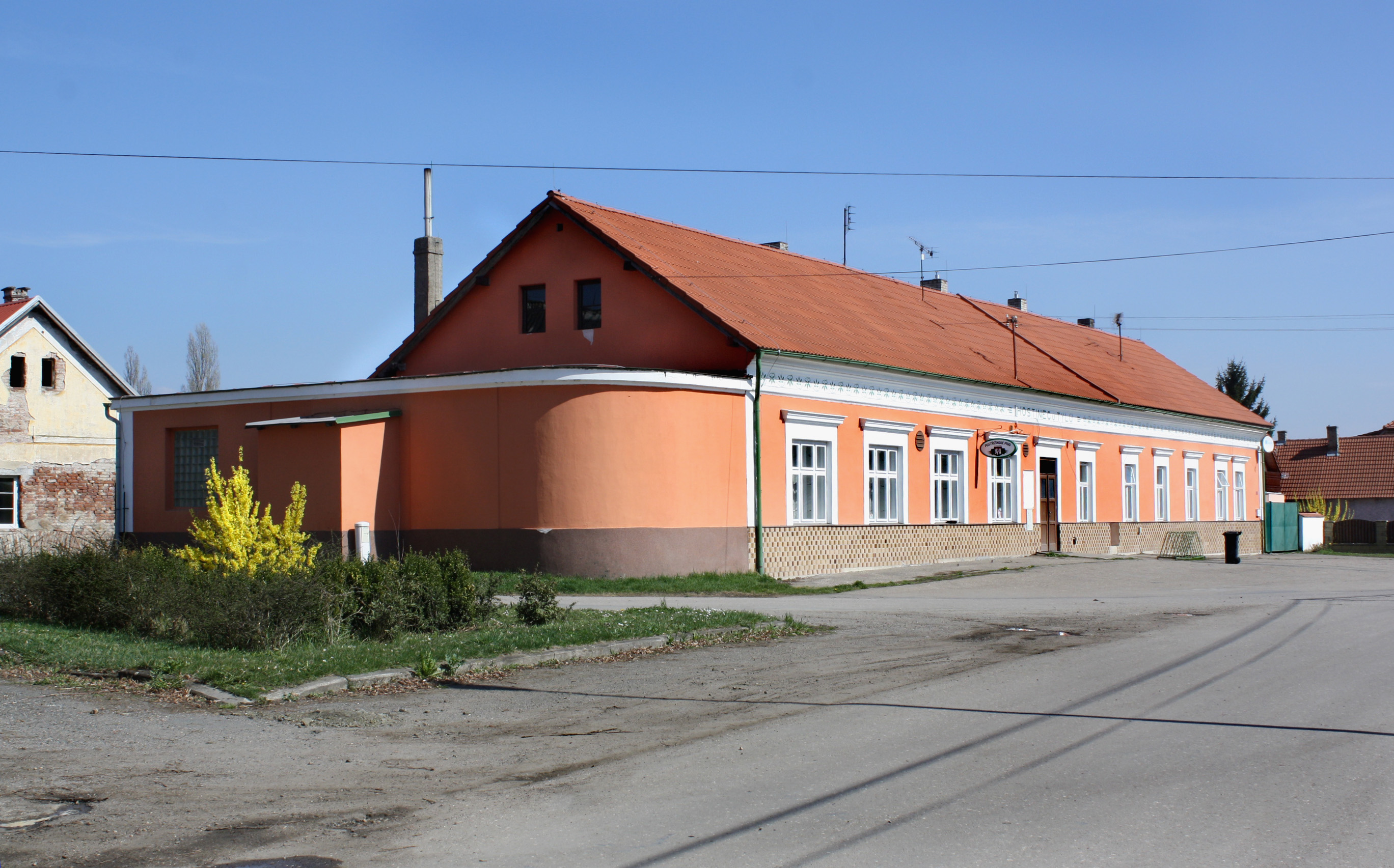 Restaurant in Záhornice, Czech Republic